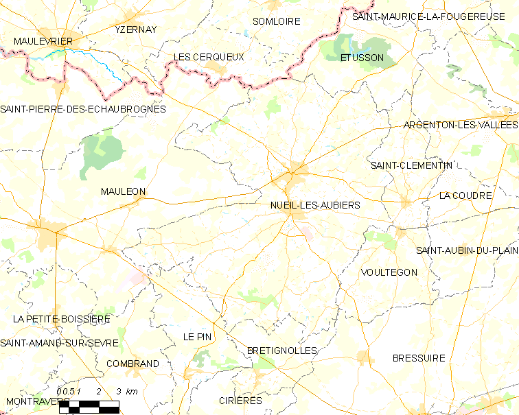 Map of French municipality Nueil-les-Aubiers